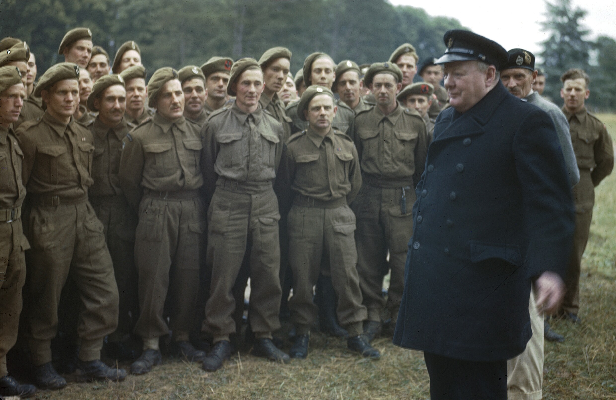 The Visit of the Prime Minister, Winston Churchill To Caen, Normandy, 22 July 1944 The Prime Minister, the Rt Hon Winston Churchill, MP, with men of the 50th Division who took part in the D-Day landings. Behind the Prime Minister is General Sir Bernard Montgomery.